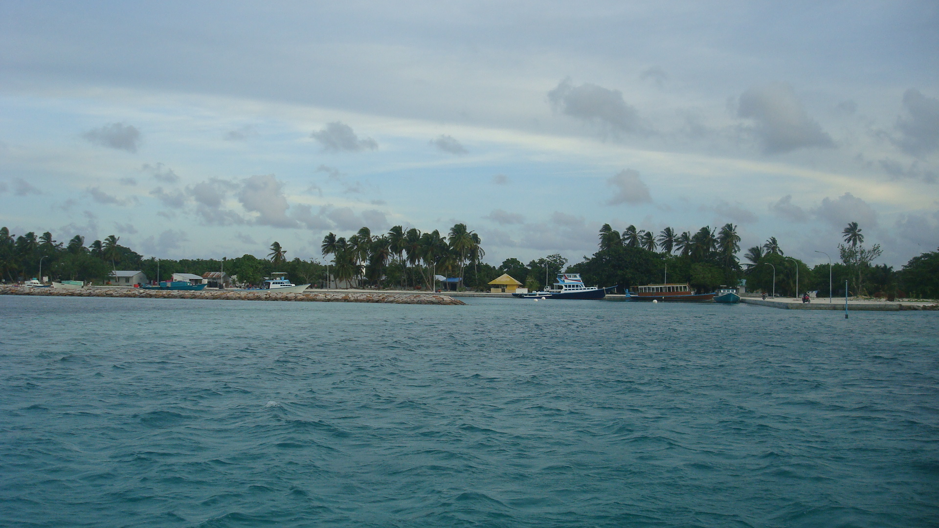 Baa Goidhoo